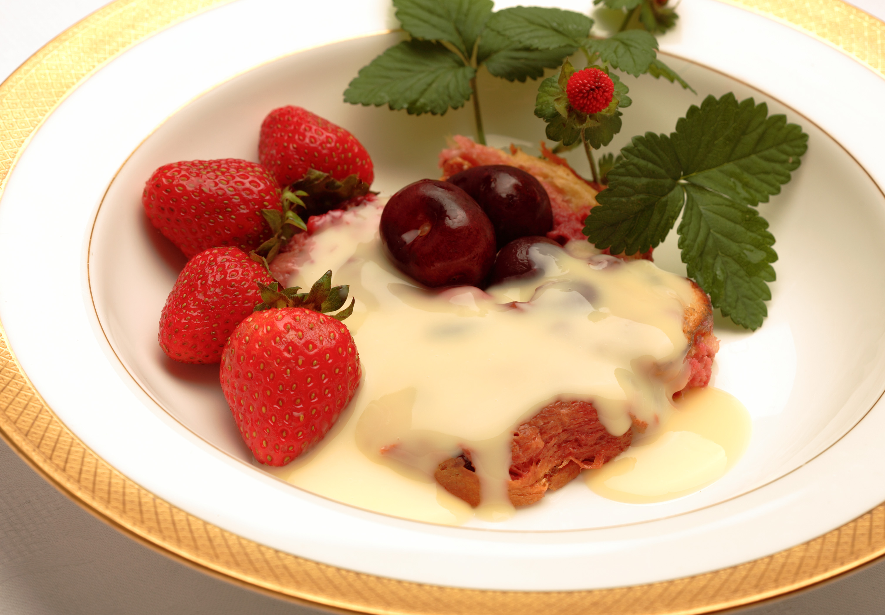 CSIRO Human Nutrition has created three Christmas recipes for followers of the CSIRO Total Wellbeing Diet so that they can enjoy a low fat and healthy Christmas. The recipes, which comply with the diet, are Prawn Salad, Spiced Roast Turkey with Lemon and Herbs accompanied by baked vegetables and Hot Panettone Berry Pudding with brandy custard.By December 2005 the CSIRO Total Wellbeing Diet has sold 350,000 copies. The diet was developed by Associate Professor Manny Noakes, Senior Dietitian/Research Scientist and Stream Leader - Diet and Lifestyle Interventions, and Dr. Peter Clifton, Director of CSIRO's Nutrition Clinic.